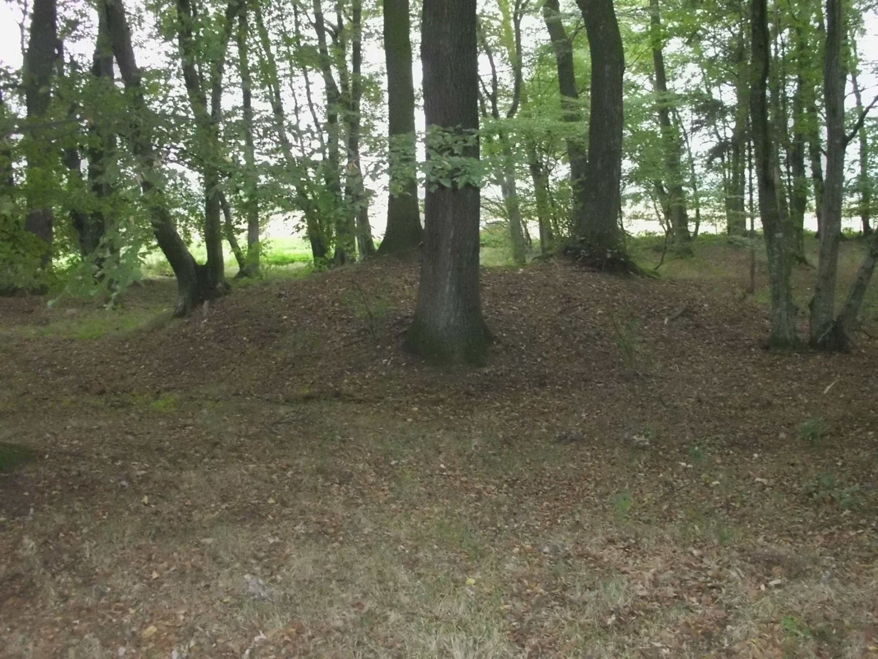 Tumuli of the Roman necropolis Hügelstaudach near Ratschendorf